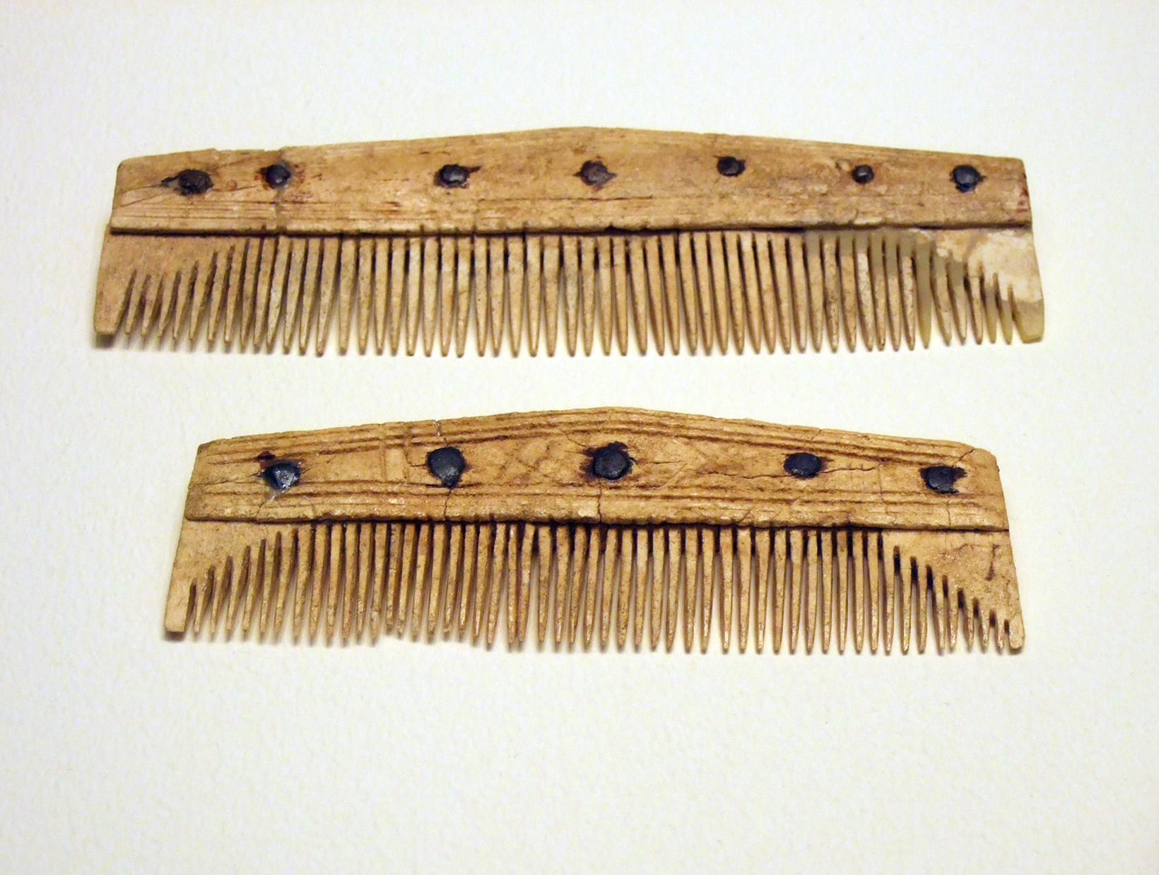 Combs from Grave 6 (burial of a child) of the Lombard grave field of Szólád Somogy County, Hungary On the eastern narrow side of the burial, an upright pair of boar's tusks was attached to the coffin. Photographed while on display from 22 August 2008 to 11 January 2009 in the exhibition "Die Langobarden. Das Ende der Völkerwanderung" at the Rheinisches LandesMuseum Bonn. On loan from the Sornogy Megyei Múzemok Igazgatósága (Kaposvár).